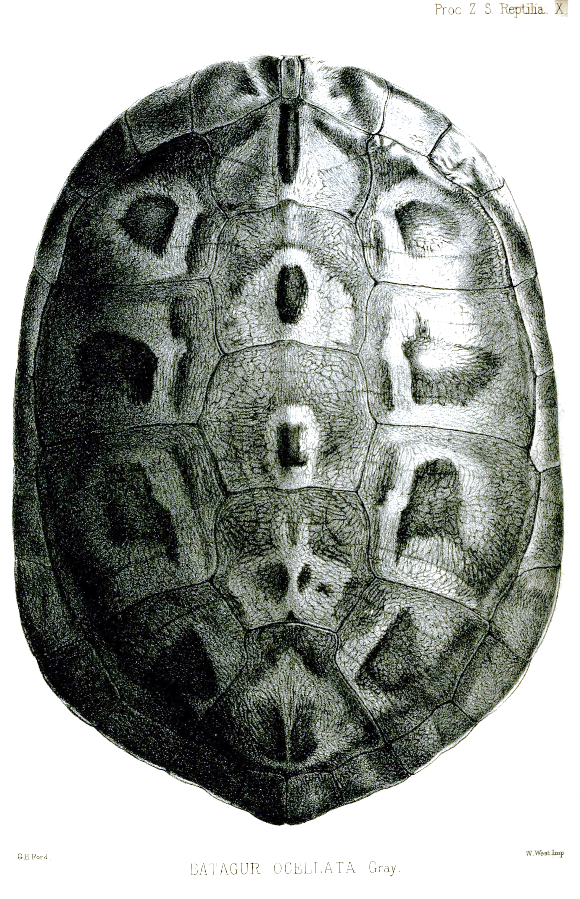 Burmese Eyed Turtle, carapace from dorsal